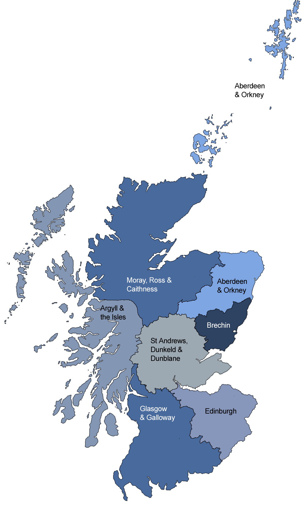 Map of the dioceses of the Scottish Episcopal Church (Anglican Communion)